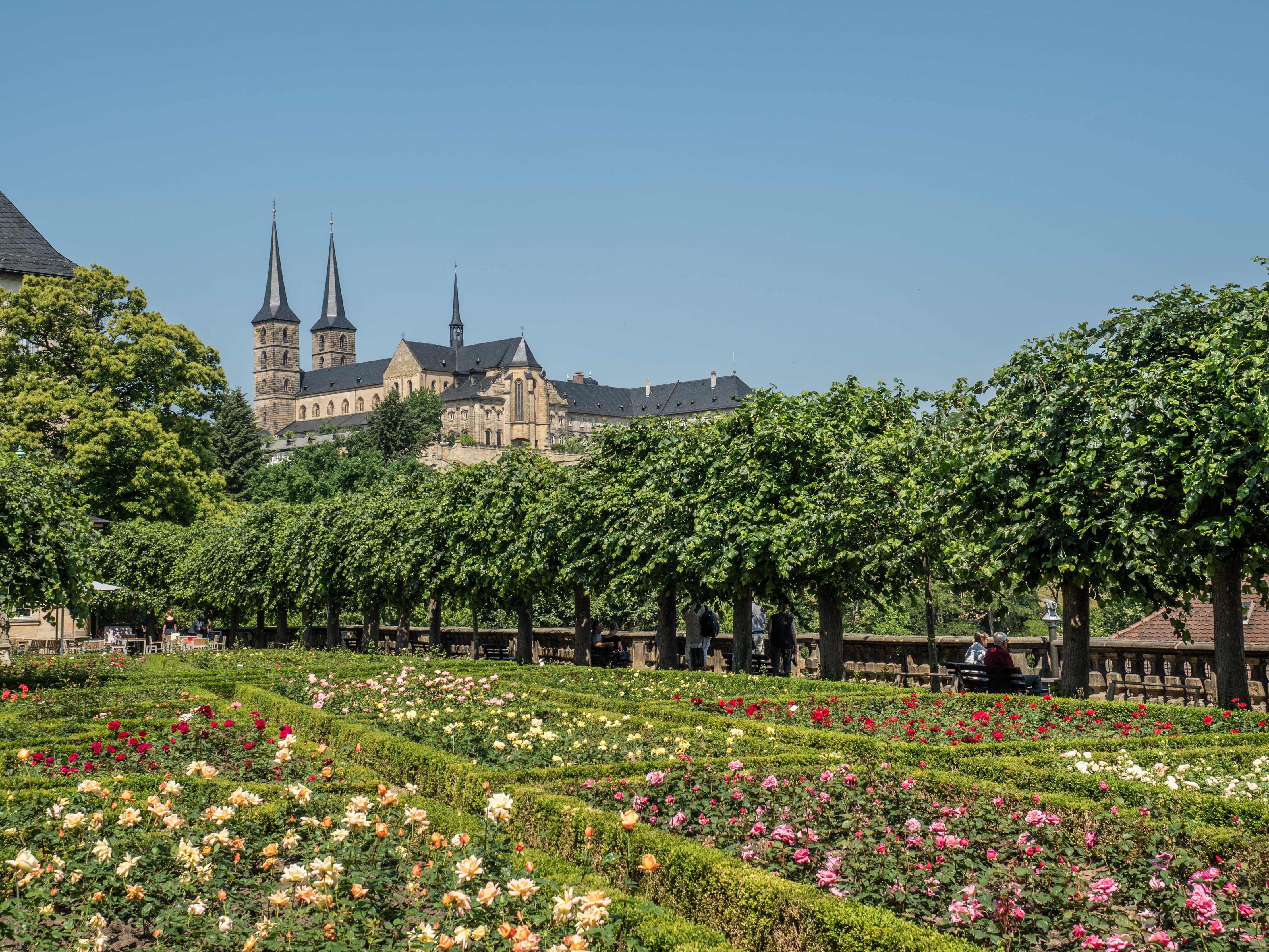 Rose garden in Bamberg